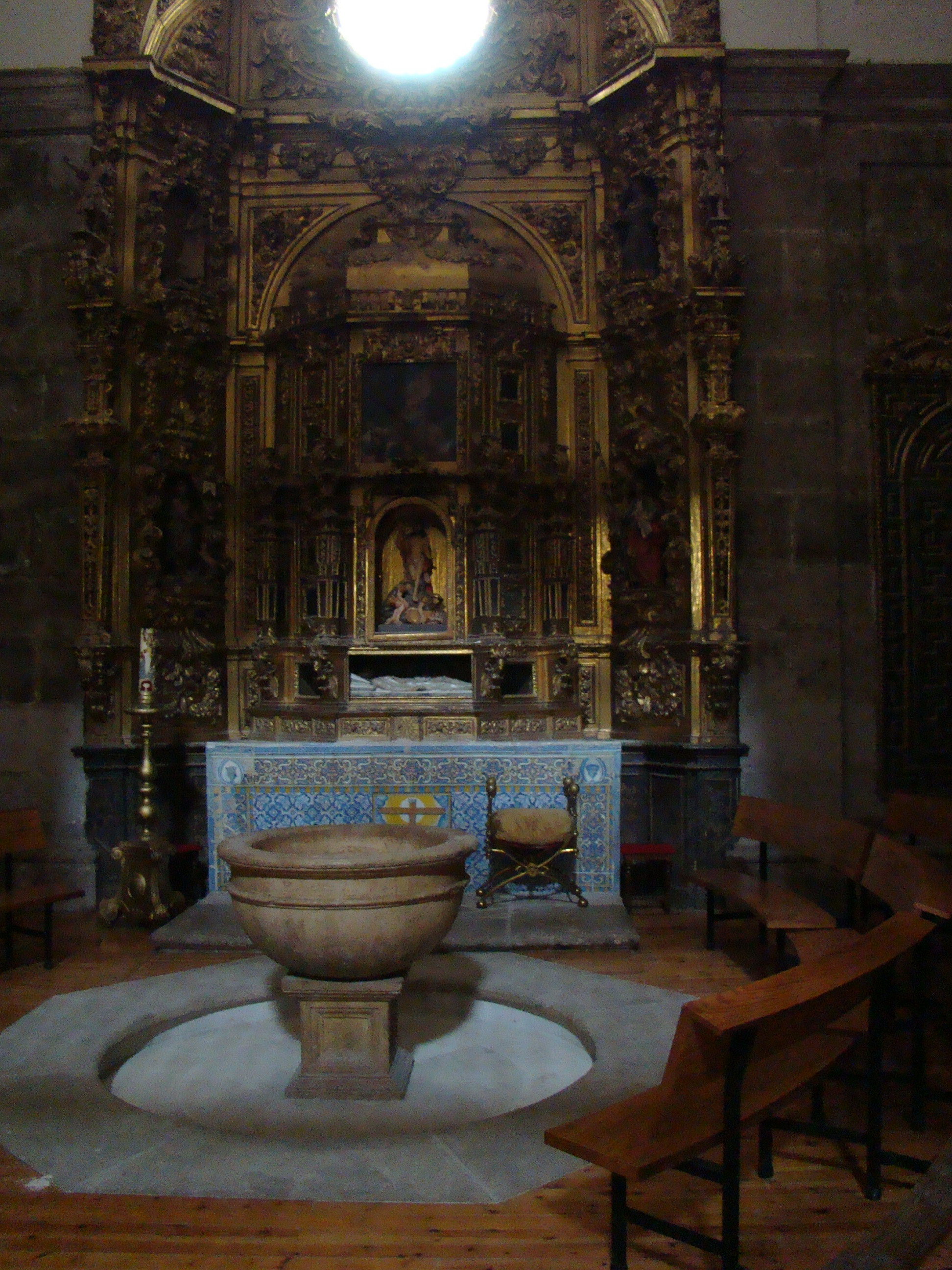 The chapel of San Juan Evangelista pursued the parochial functions as the baptismal pile was located in it. It is a small chapel due to its situation, just under the ancient tower. It is decorated with a neoclassic altarpiece made by Jorge Somoza in 1846. The arrangement is in the way of an arch of triumph with four big corinthian columns. There are several paints and a part of the 15th century ashlar coming from the collegiate church. The chapel has a 17th century grid which is finished with barroque crenellations carved in wood.